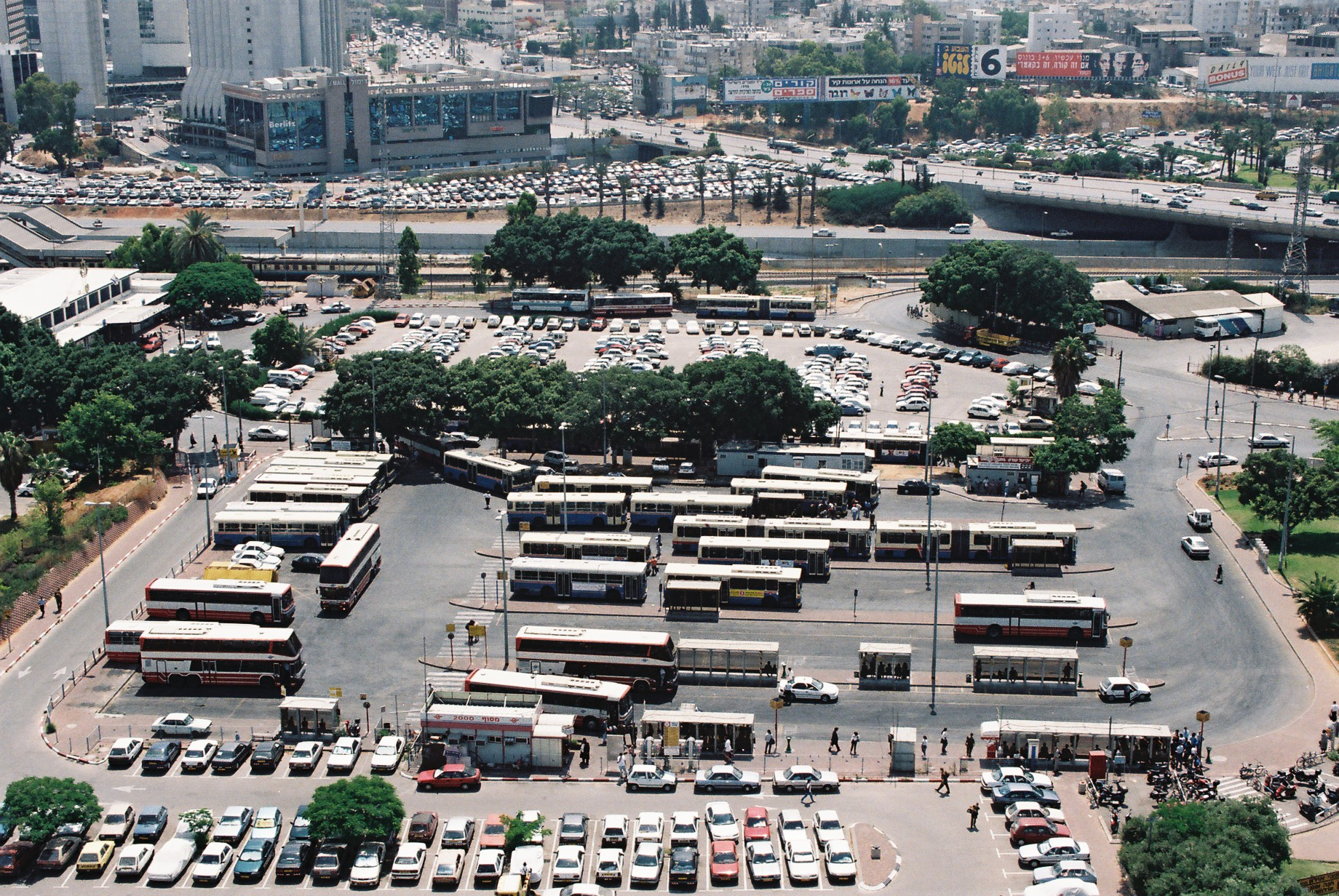 General view of Tel Aviv 2000 Terminal, Israel, 1997